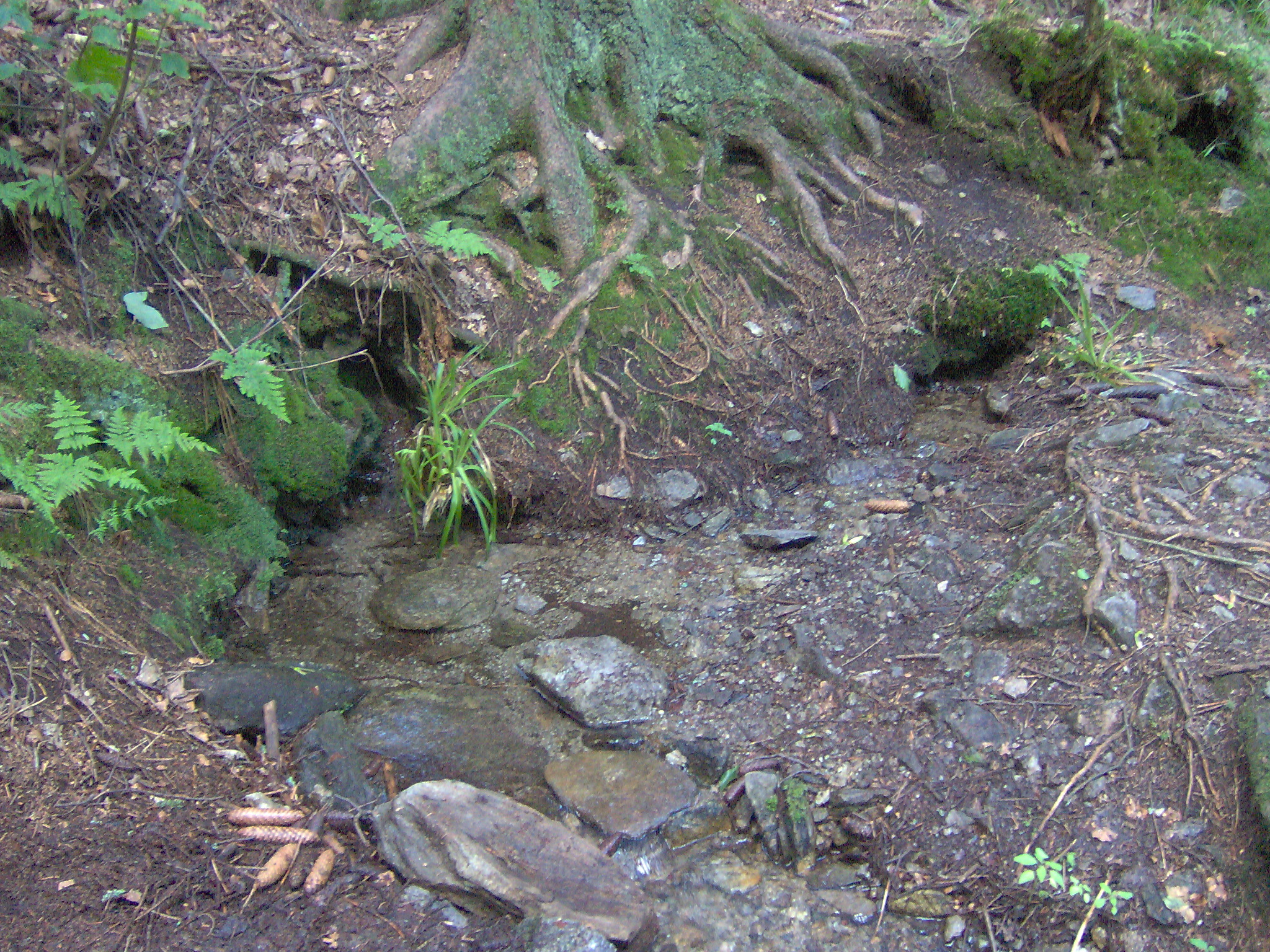 Riverhead of river Volyňka in South Bohemian Region in the Czech Republic